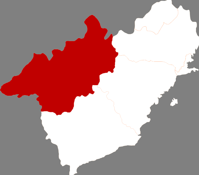 Location of Suizhong county in Huludao City, China